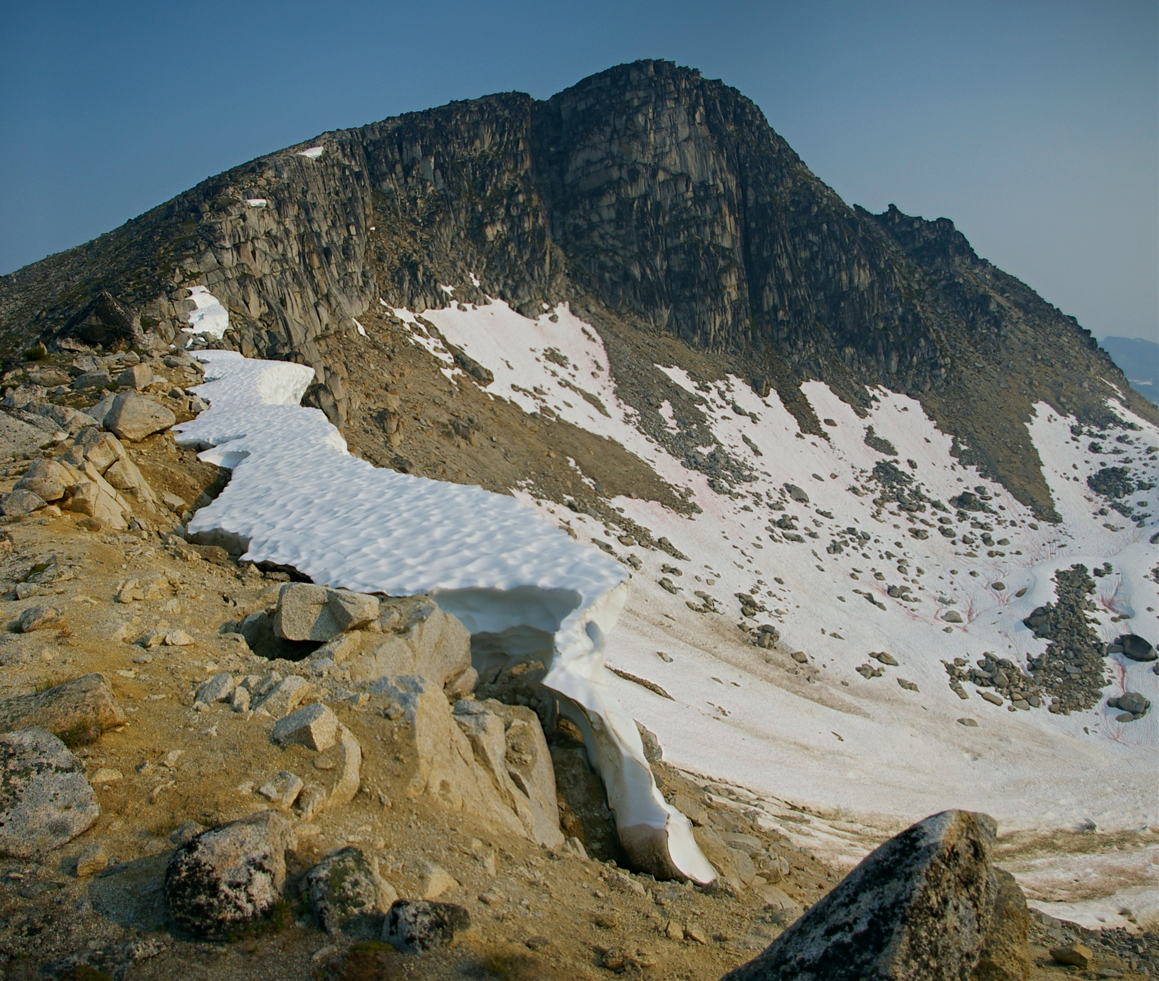 Mount Aragorn viewed from the Gandalf-Aragorn col